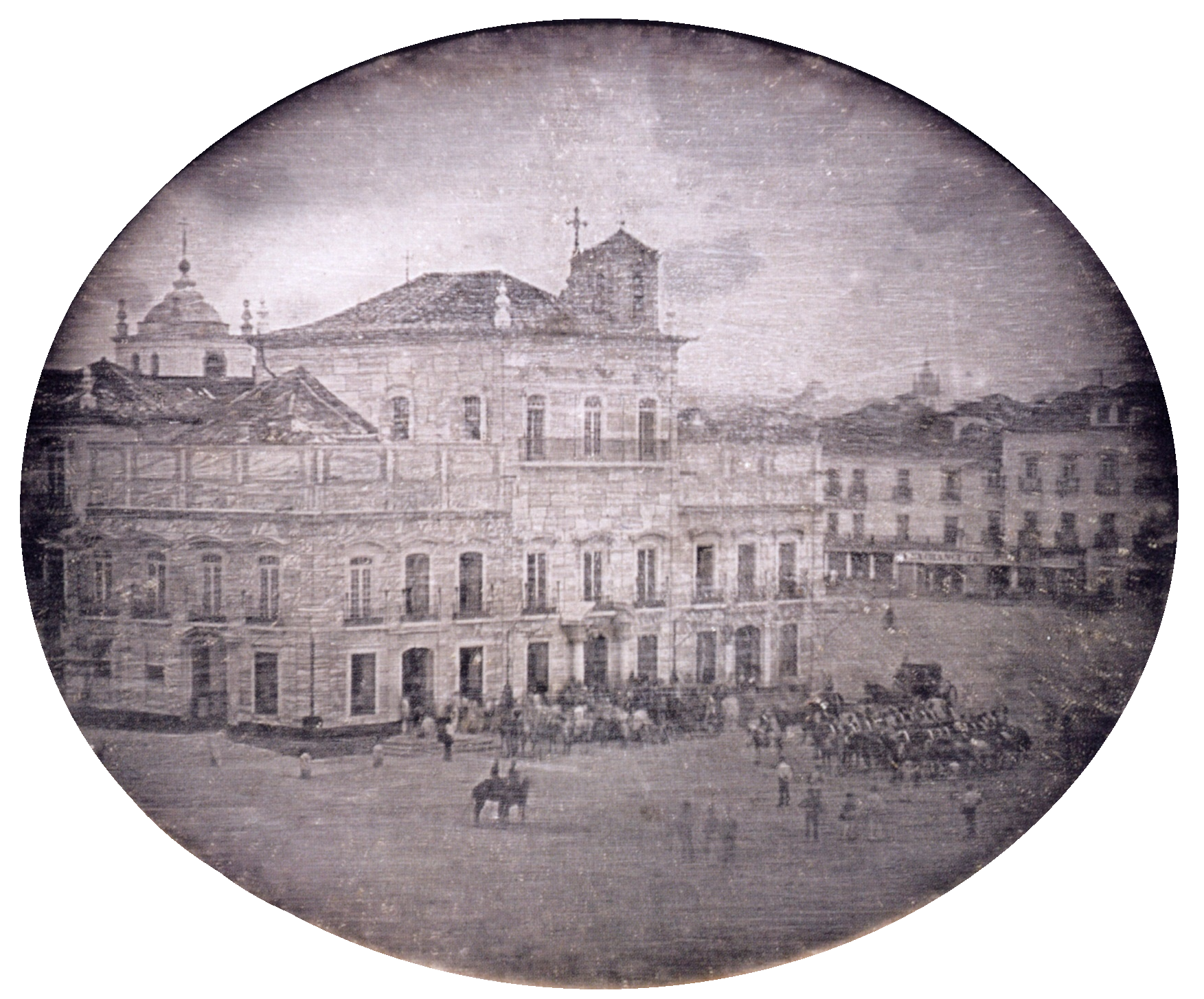 View from the Imperial Palace at Rio de Janeiro with a cavalry battalion in front of it, 1840.